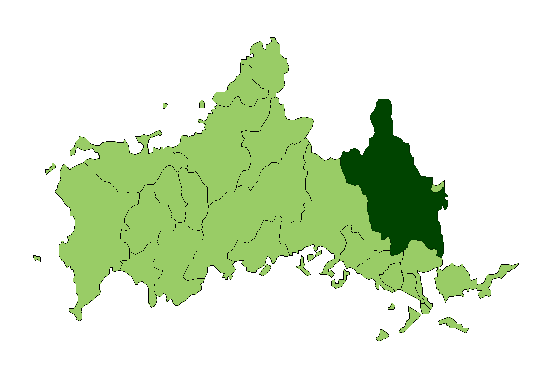 Map of Yamaguchi Prefecture highlighting Iwakuni city. Borders of map as of July, 2006. (blank map used from [1]) See also Image:YamaguchiMapCurrent.png.